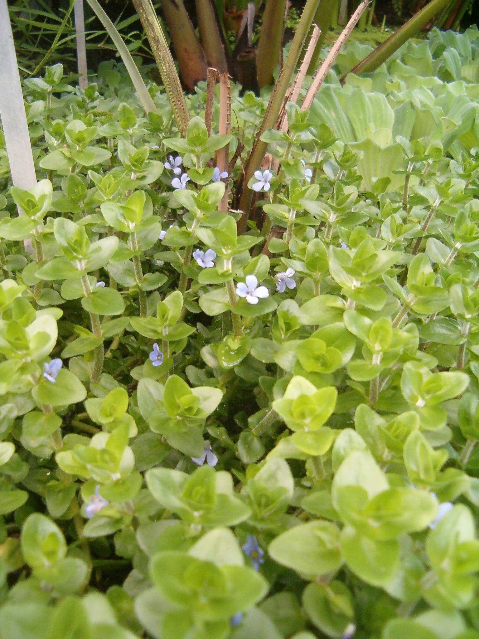 At Botanical Gardens Berlin-Dahlem Species Bacopa caroliniana